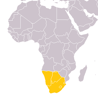 Map of Africa, showing the members of the Southern African Customs Union (SACU): Botswana, Lesotho, Namibia, South Africa and Eswatini